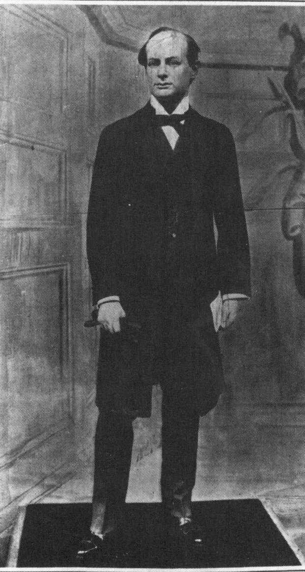 First wax sculpture of Winston Churchill at Madame Tussaud's in 1908.